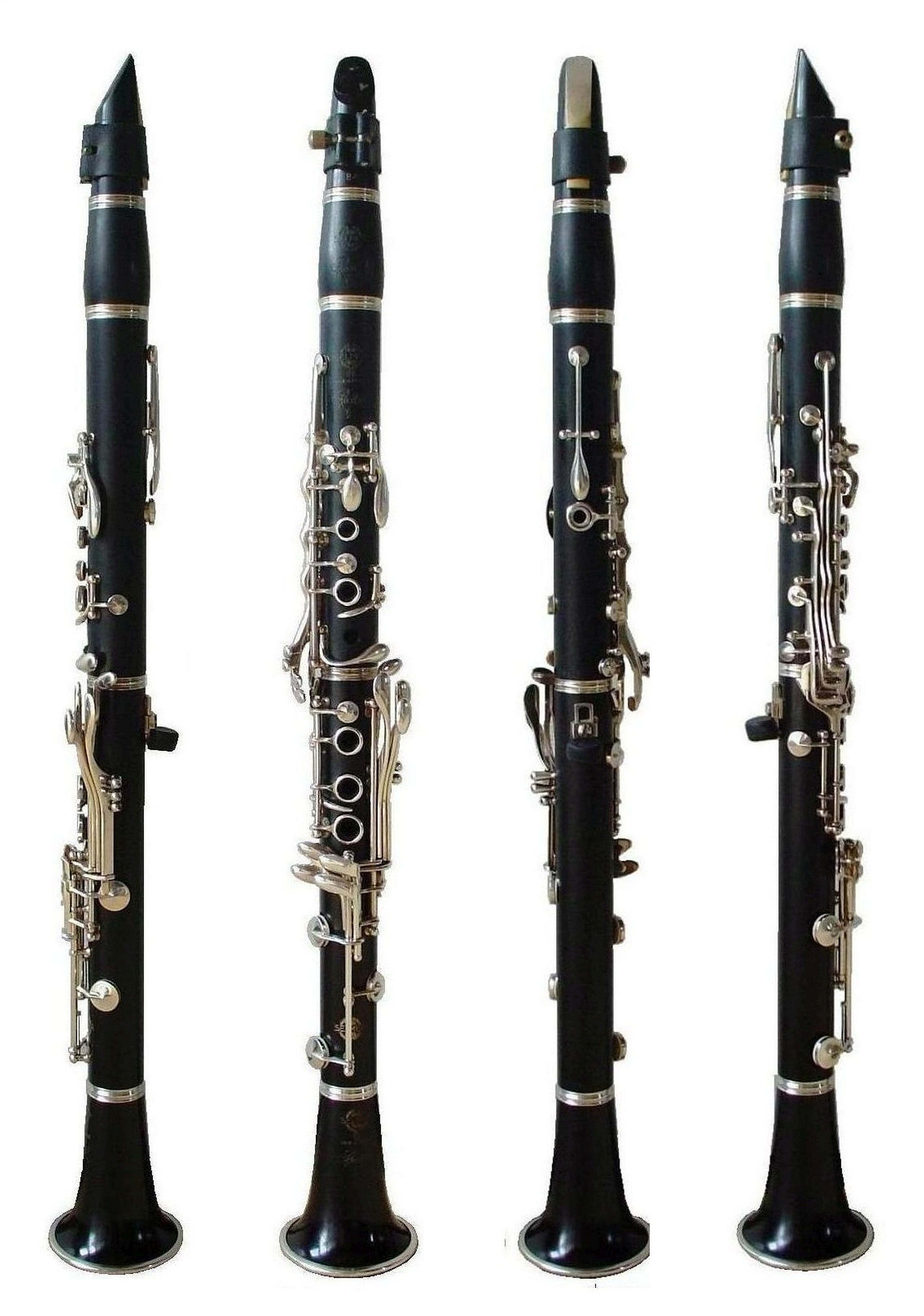 All around a B-flat clarinet. Made with MS Paint.